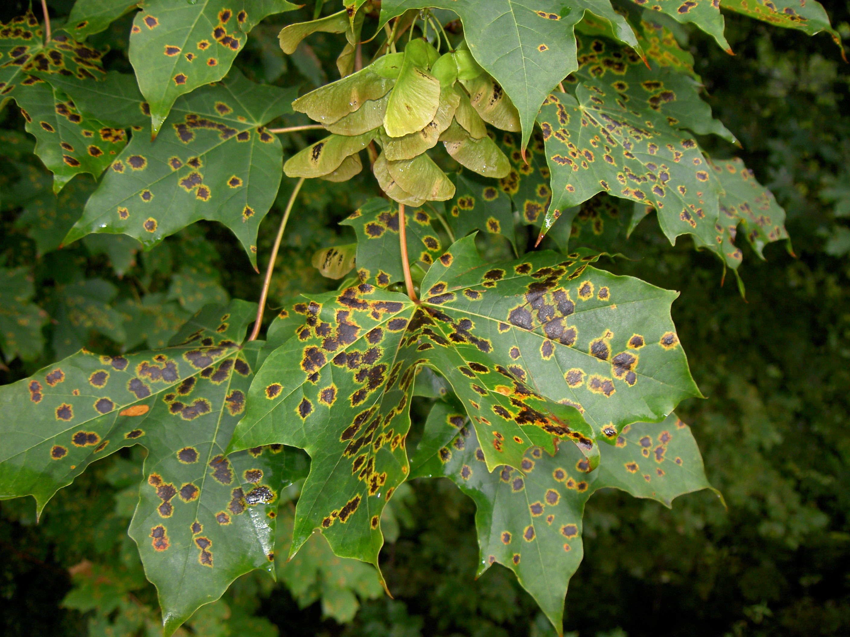 Tar spot fungus (Rhytisma acerinum) on maple leaves. Photographed in Tampere, Finland by Teemu Mäki